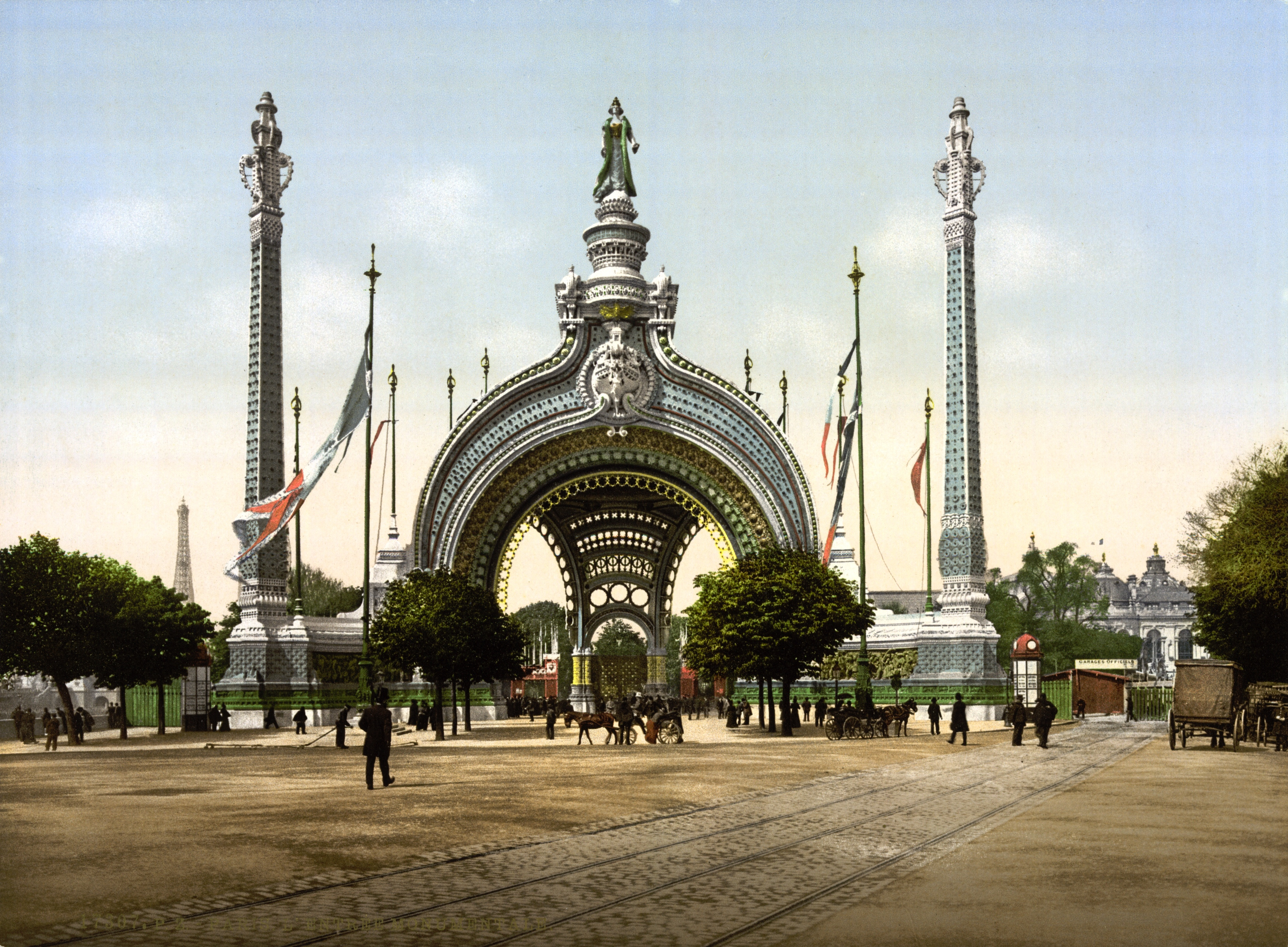 The main entrance of the Exposition Universal in 1900 in Paris, displaying the triumph gate by René Biné (1866-1911).